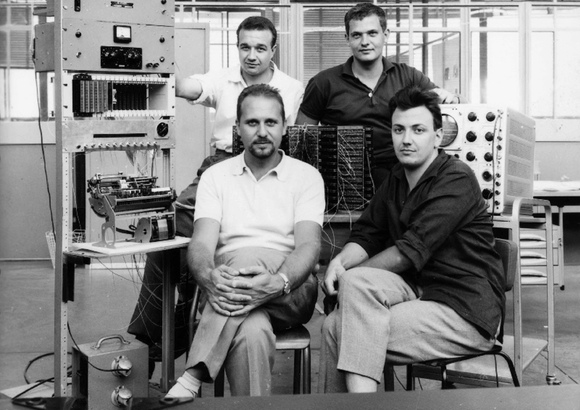 The Programma 101 team (except Giuliano Gaiti) at the Olivetti Laboratory. From left to right: seated in front: Pier Giorgio Perotto, Giovanni De Sandre standing in rear: Gastone Garziera, Giancarlo Toppi.